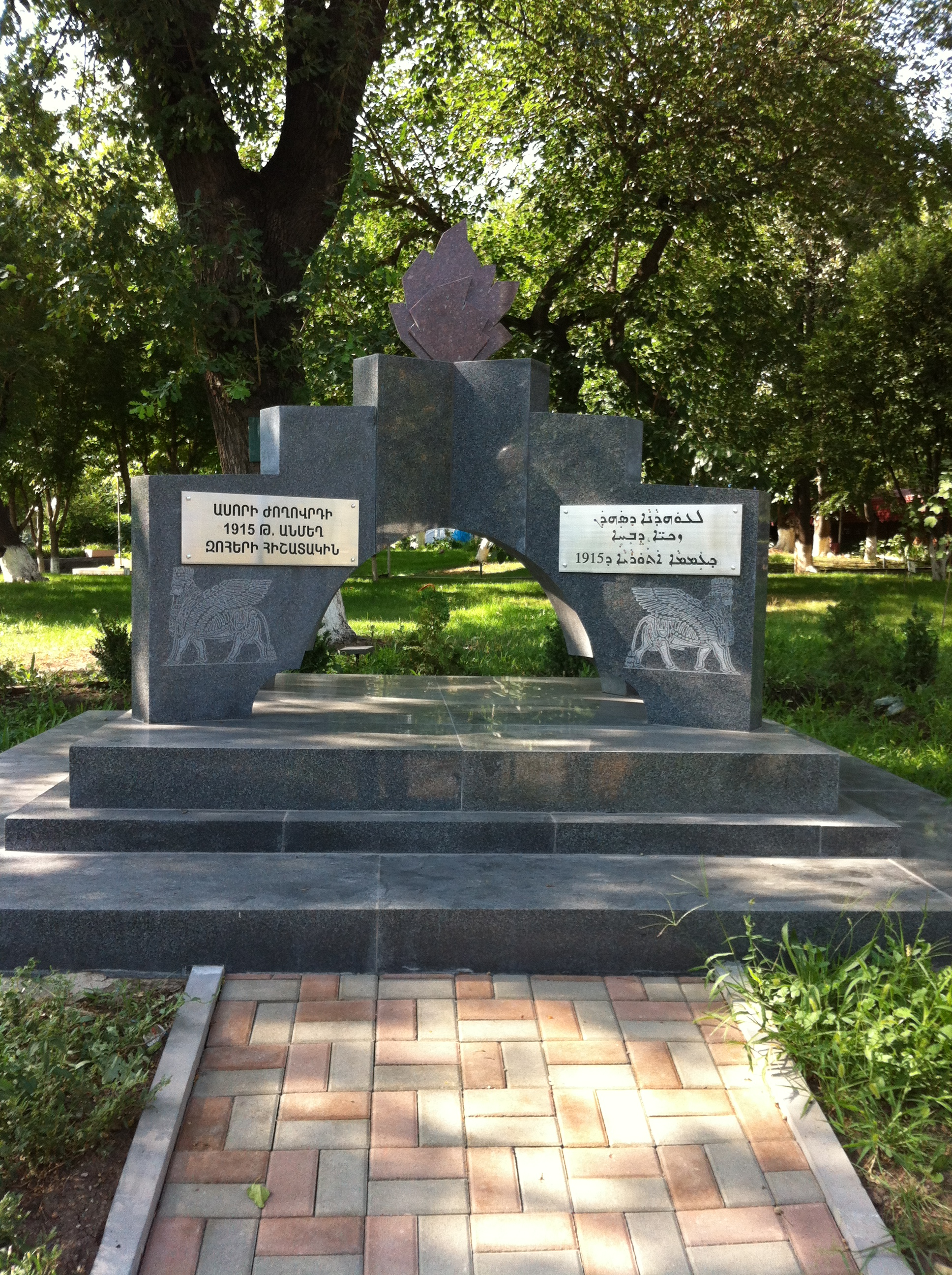 Assyrian Genocide Memorial in Yerevan, Armenia. Text on monument in Armenian: ԱՍՈՐԻ ԺՈՂՈՎՐԴԻ 1915 Թ. ԱՆՄԵՂ ԶՈՀԵՐԻ ՀԻՇԱՏԱԿԻՆ (English translation = TO ASSYRIAN PEOPLE'S INNOCENT VICTIMS OF 1915.)